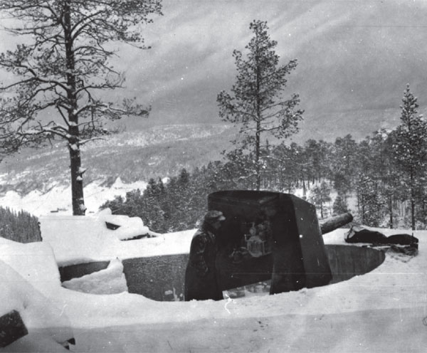 Artillery position no. 1 at Hegra Fortress with 7,5 cm gun in half-turret